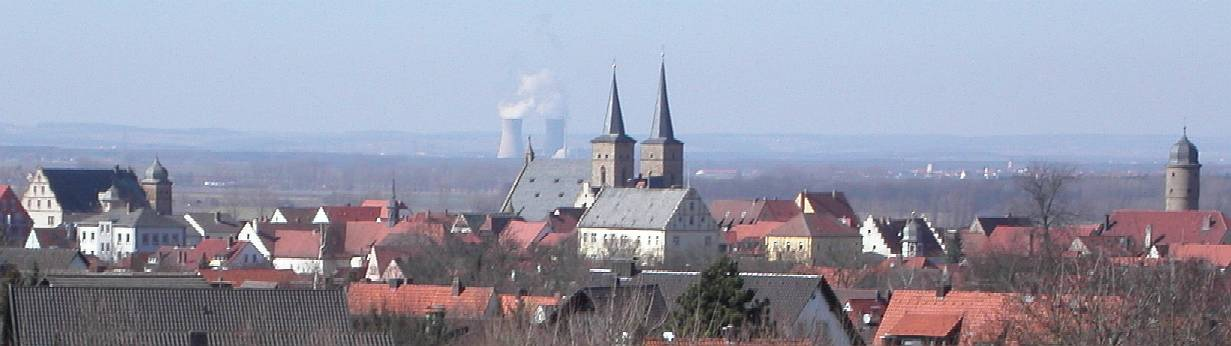 Cityview of Gerolzhofen (Germany)